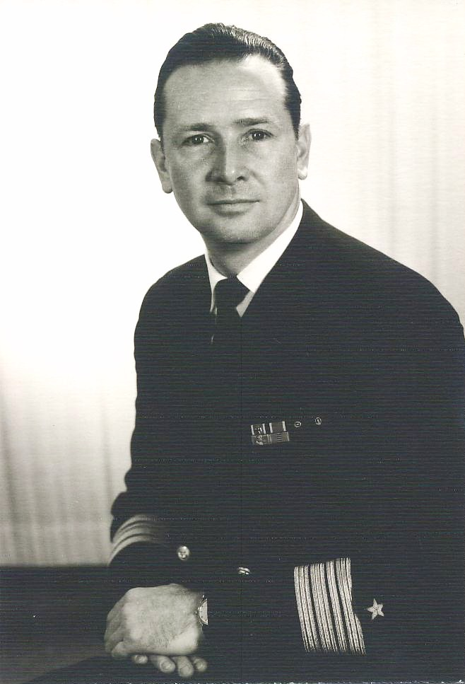 Portrait of Admiral Rudolf Arendt (then Commander)